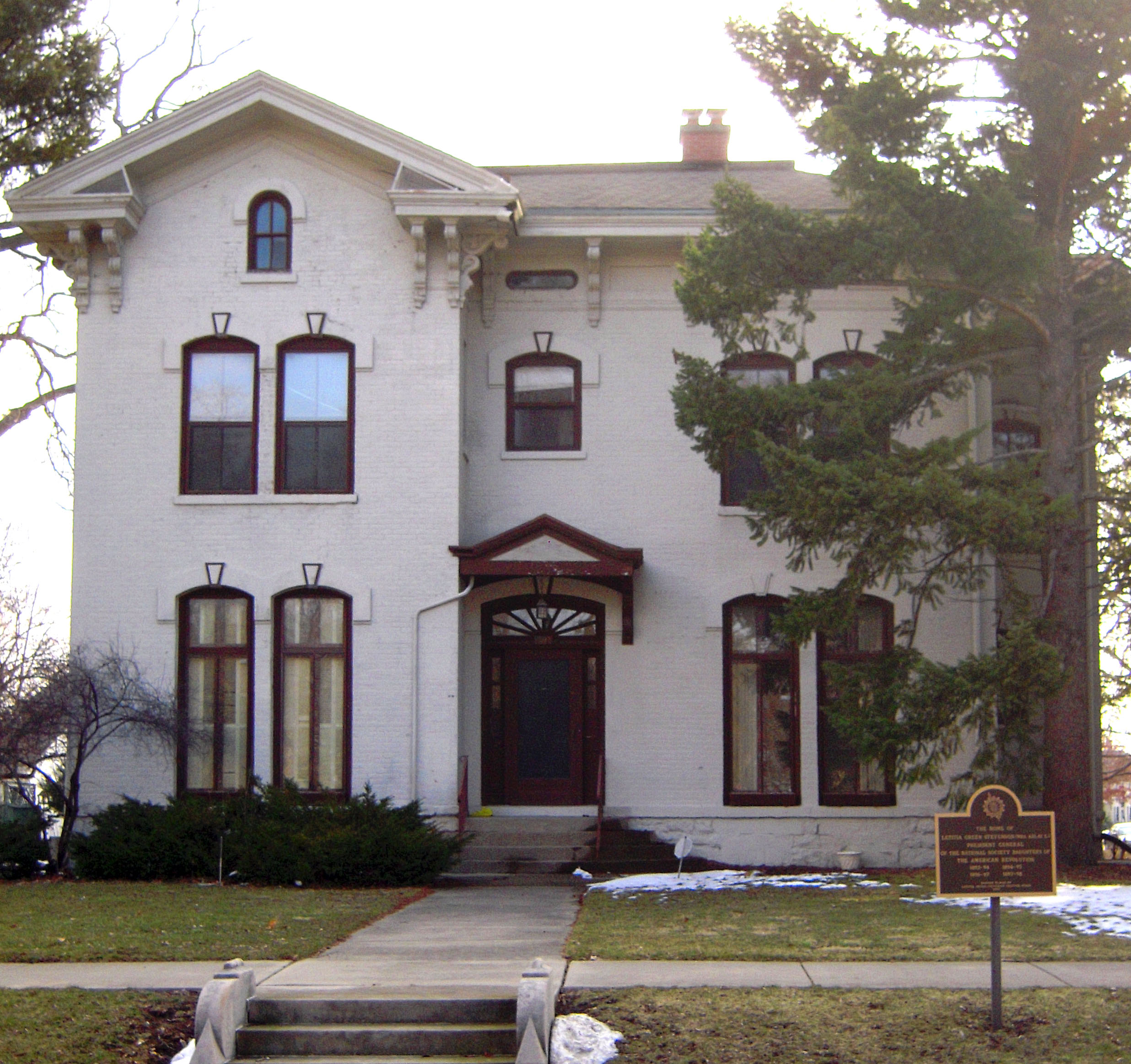 A house in the Franklin Square Historic District